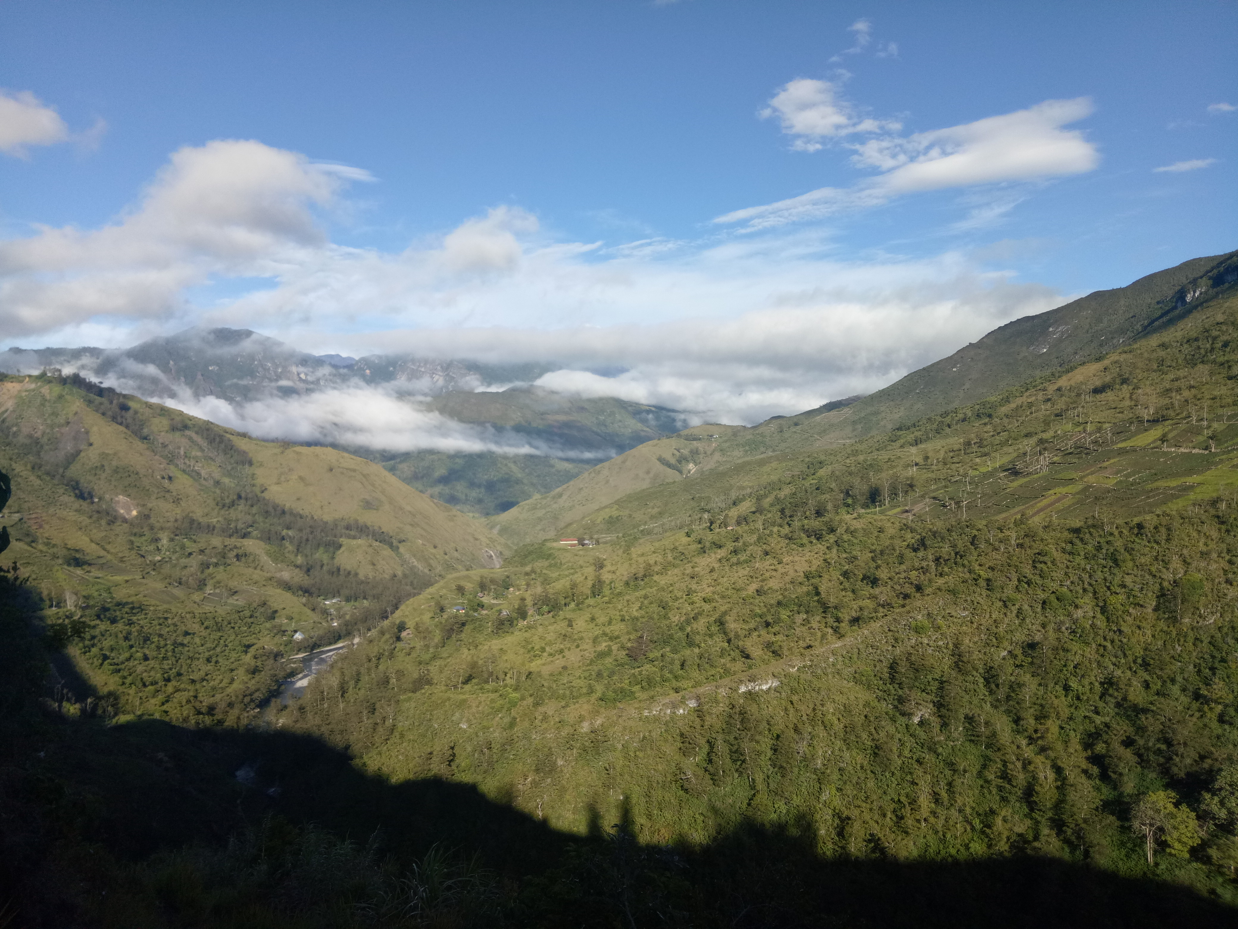 Baliem valley in Papua